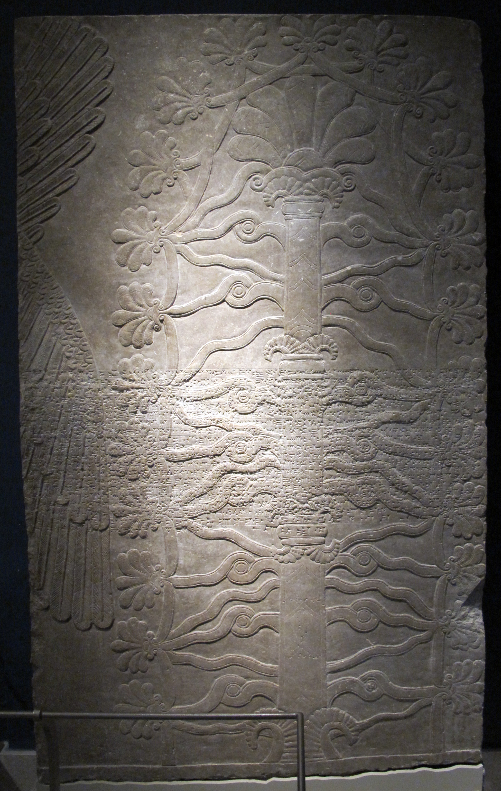 Near Eastern antiquities in the Brooklyn Museum